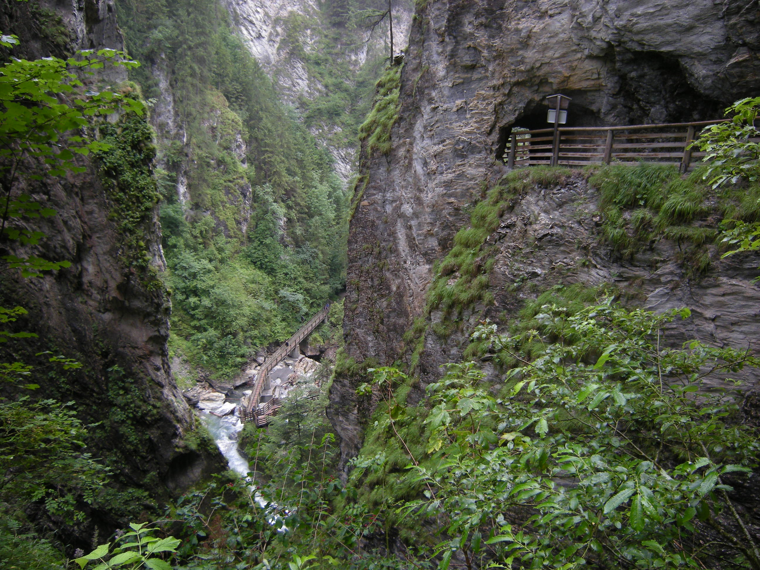 Kitzlochklamm